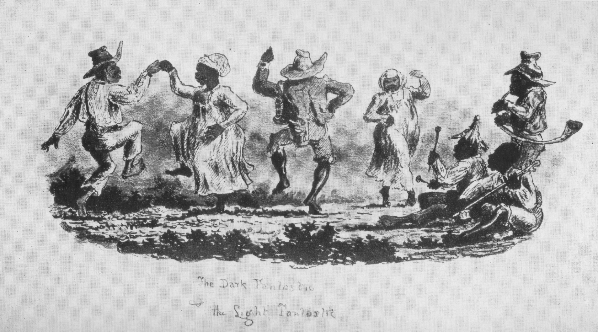 Drawing by Charles Davidson Bell: "The Dark Fantastic". Cape Malays dancing and playing